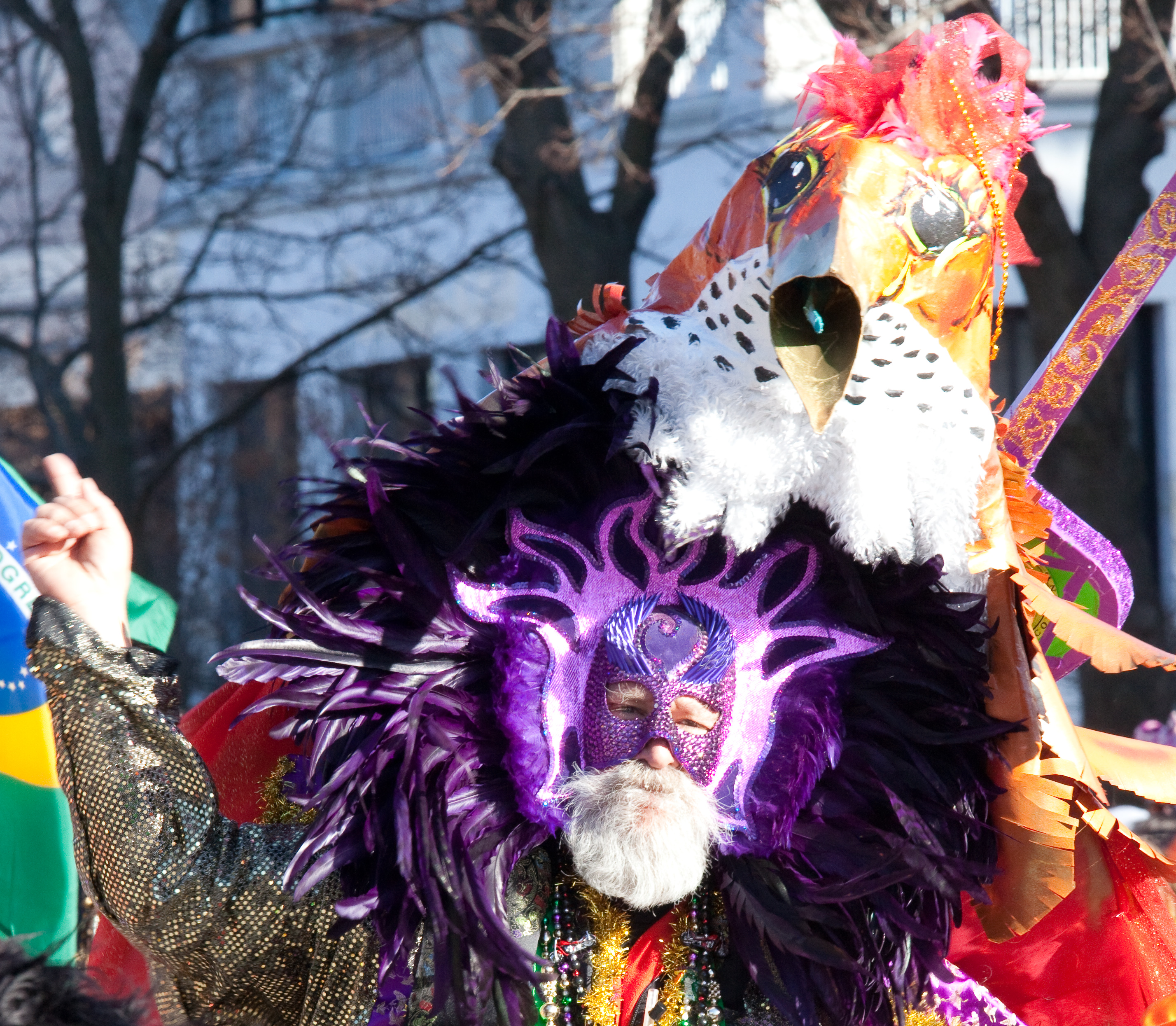 Alan Newman, founder of Magic Hat